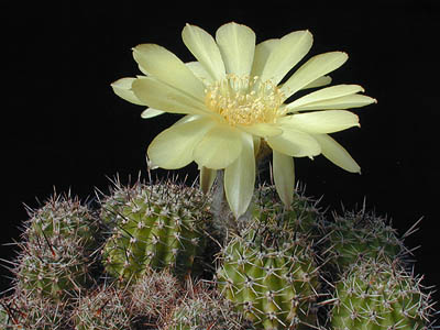 Echinopsis aurea